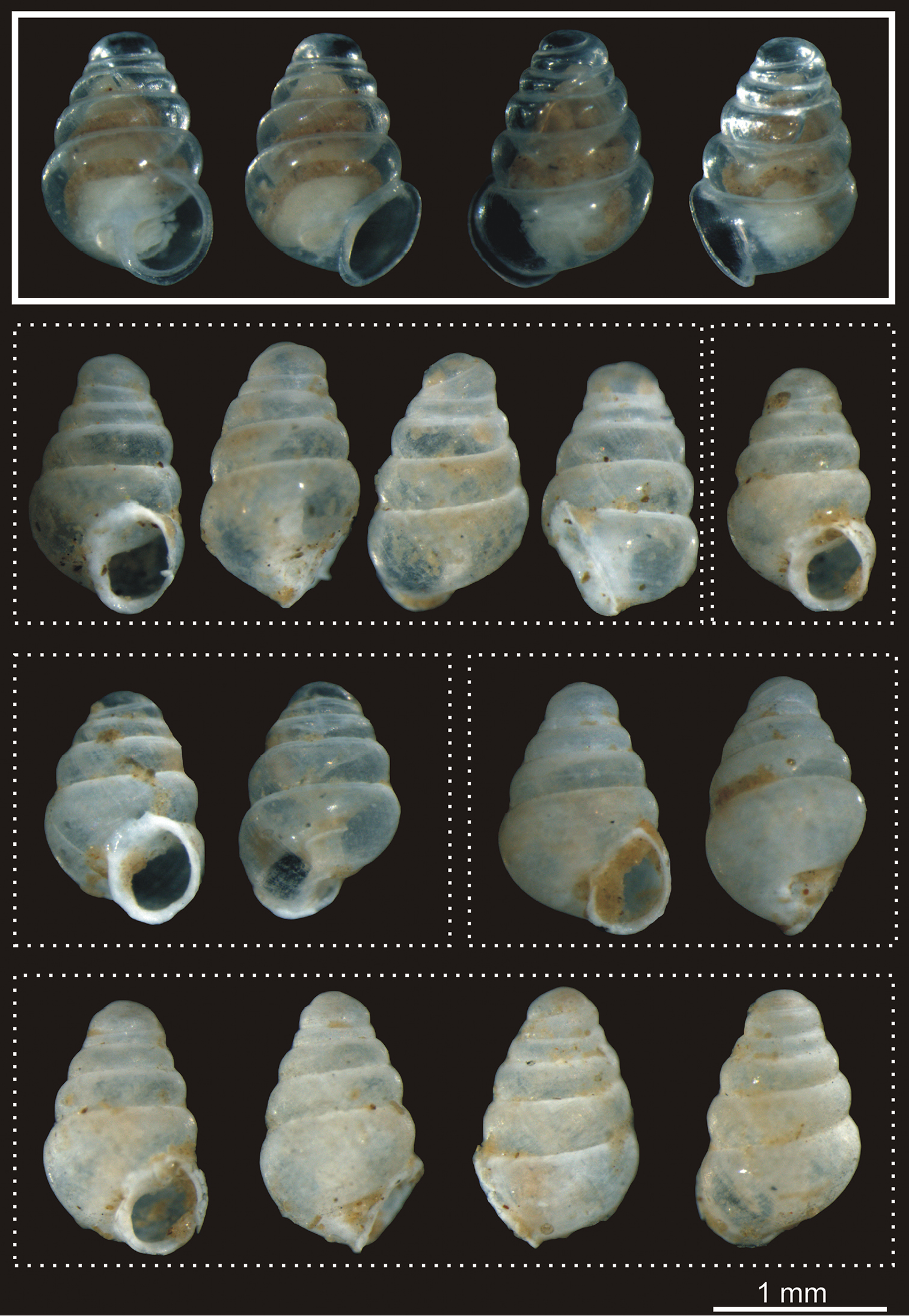 Holotype and paratypes of Zospeum tholussum. The holotype (former living specimen) is marked with a solid line; five paratype specimens (shells) are surrounded by dotted lines.